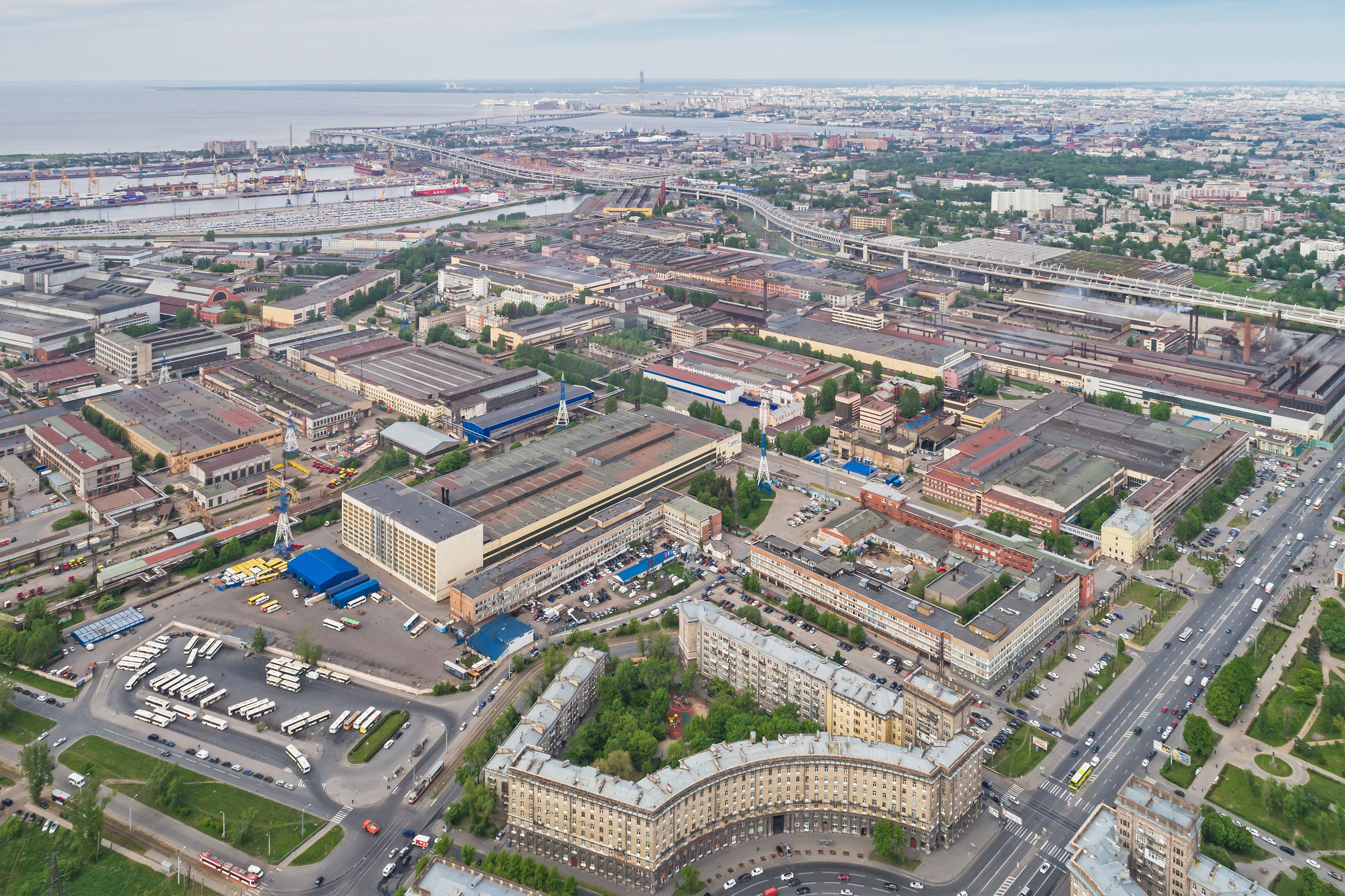 Aerial photo of Kirov Plant in Saint Petersburg (Russia).